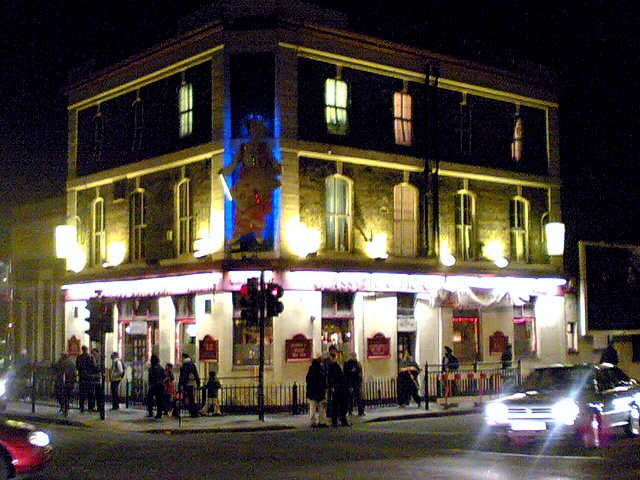 The Glassy Junction pub, at the junction of South Road and Park Avenue in Southall, (Middlesex), Greater London, UK (reputedly the first pub in the UK to accept payment in Indian rupees).